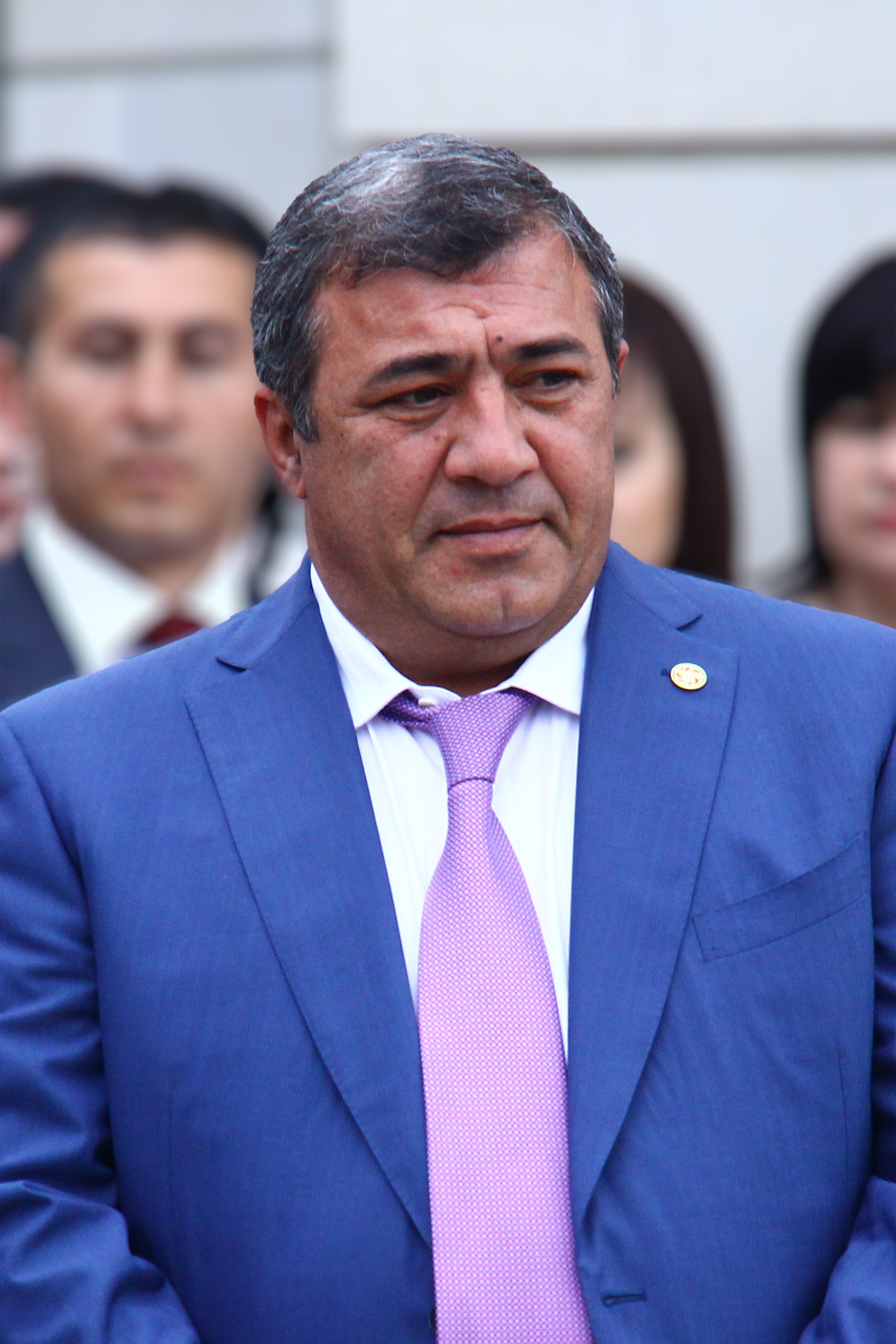 Ruben Hayrapetyan, Armenian businessman and former head of Football federation